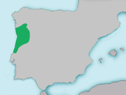 Distribution map of Achondrostoma oligolepis in Iberian Península.